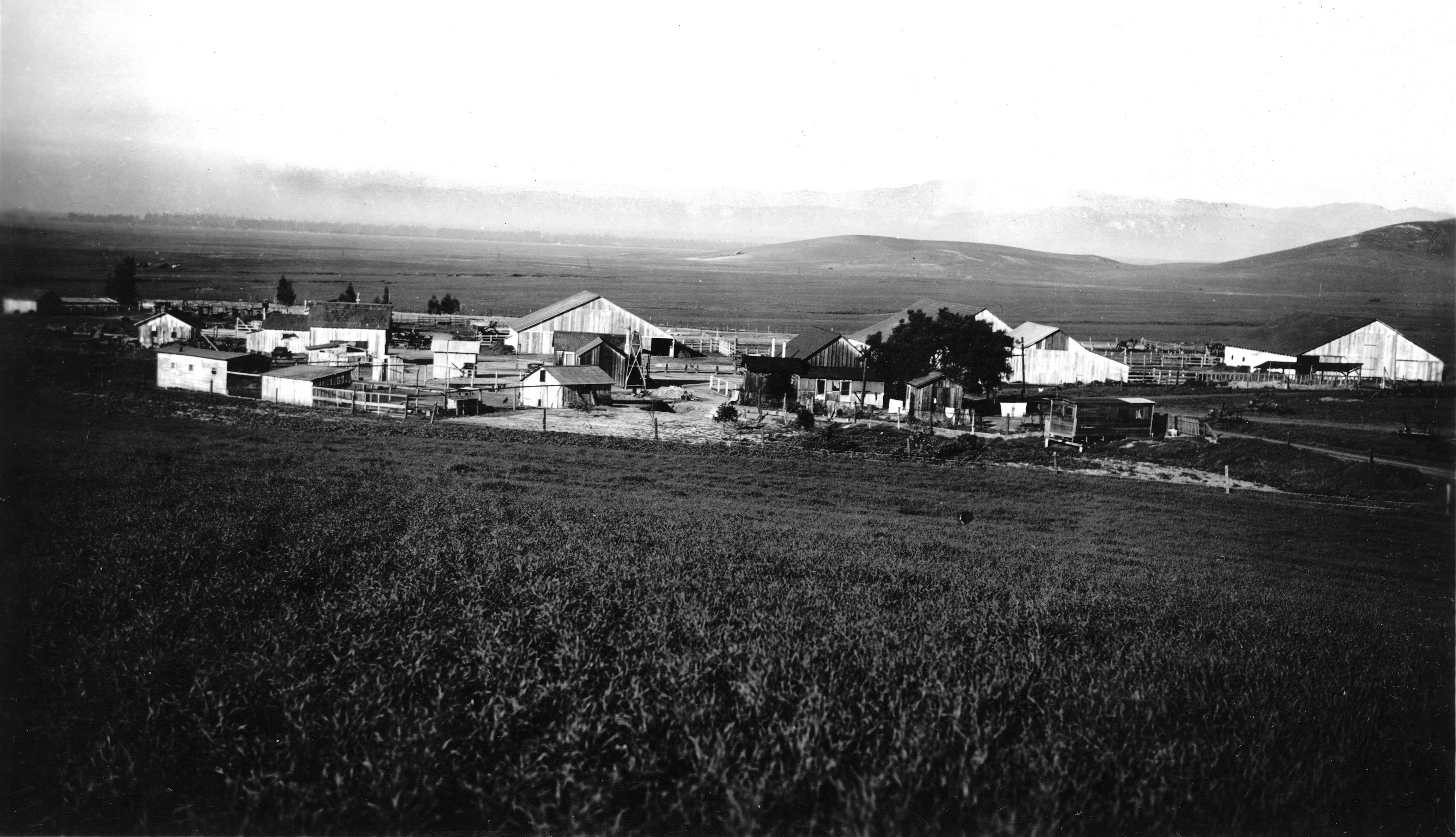 Camp Bonita cattle ranch, Irvine Ranch, Irvine, California in 1937